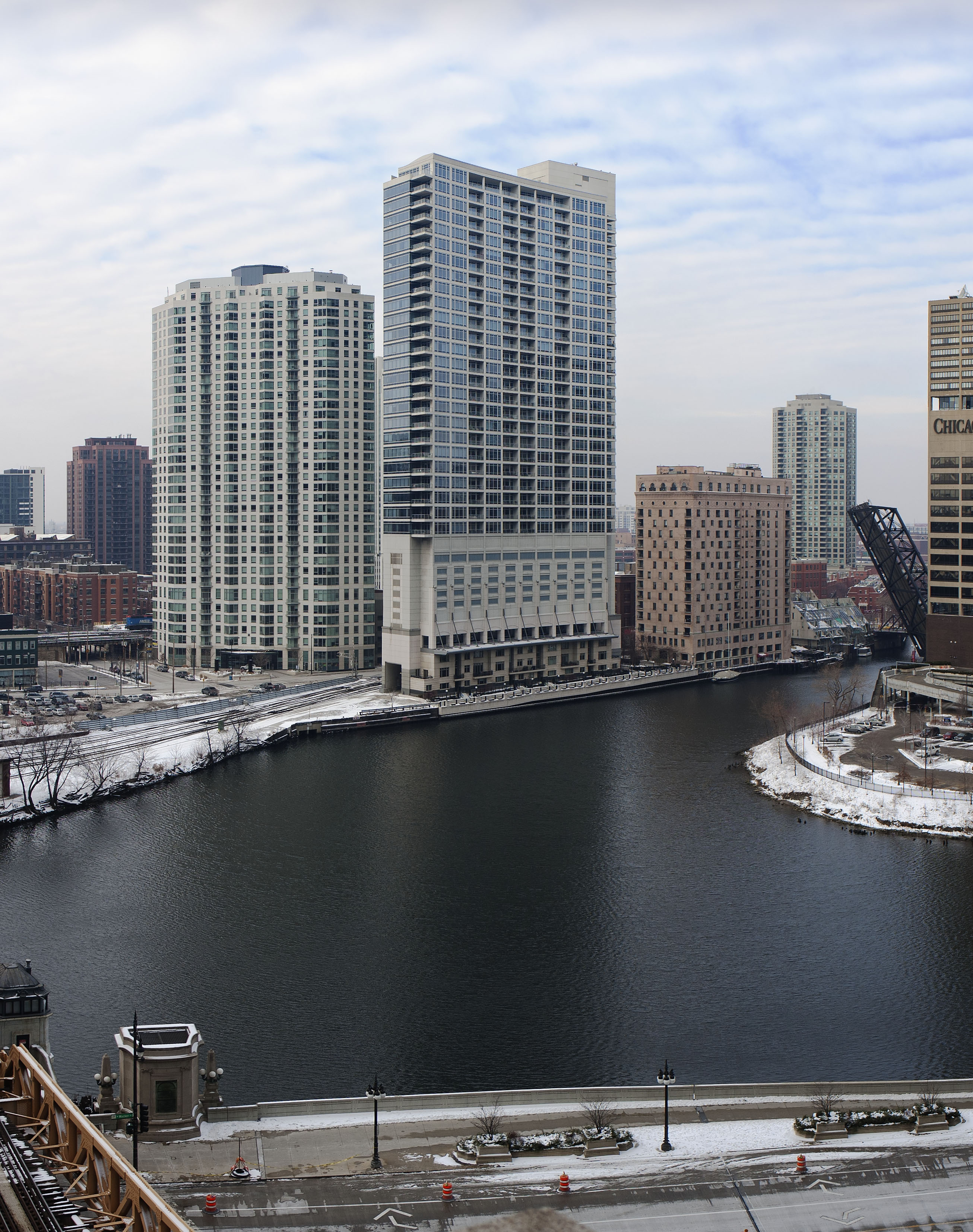 Wolf Point and the fork of the Chicago River in Chicago, Illinois. This image appears to have been taken from inside 333 Wacker Drive.